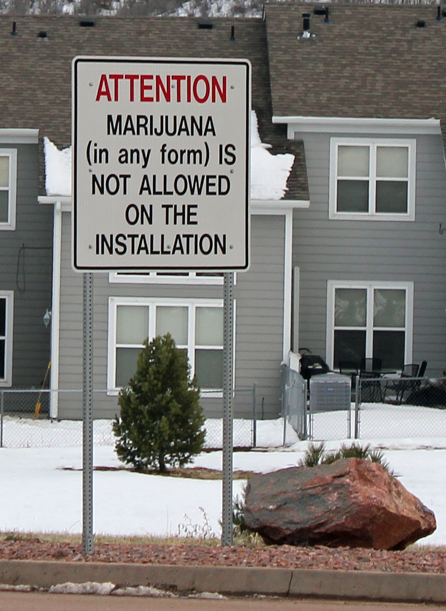 A picture of a sign that says, "Attention, Marijuana in any form is not allowed on the installation." The sign is at Entrance Gate 1 at Fort Carson, Colorado.